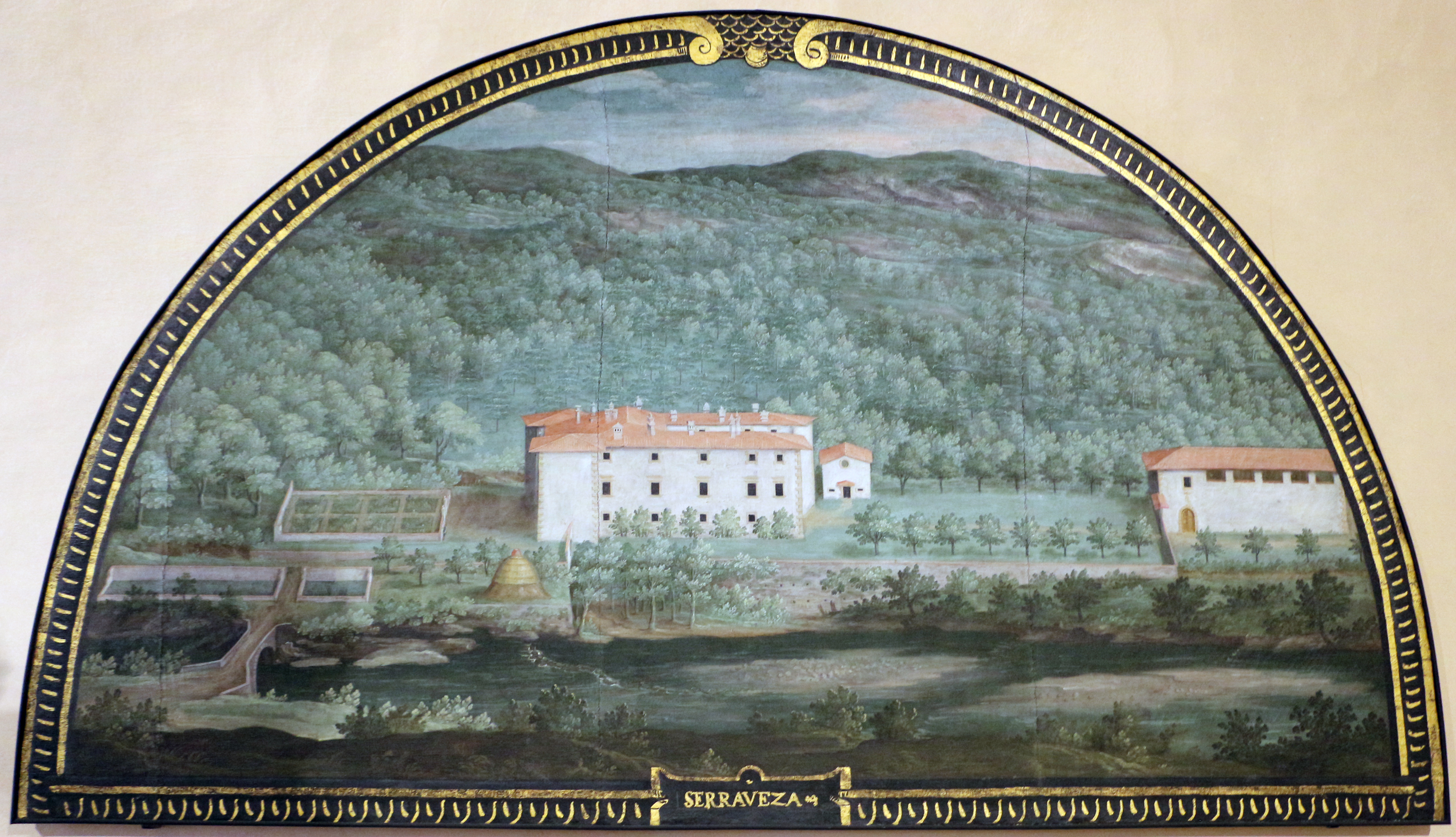 Villa La Petraia